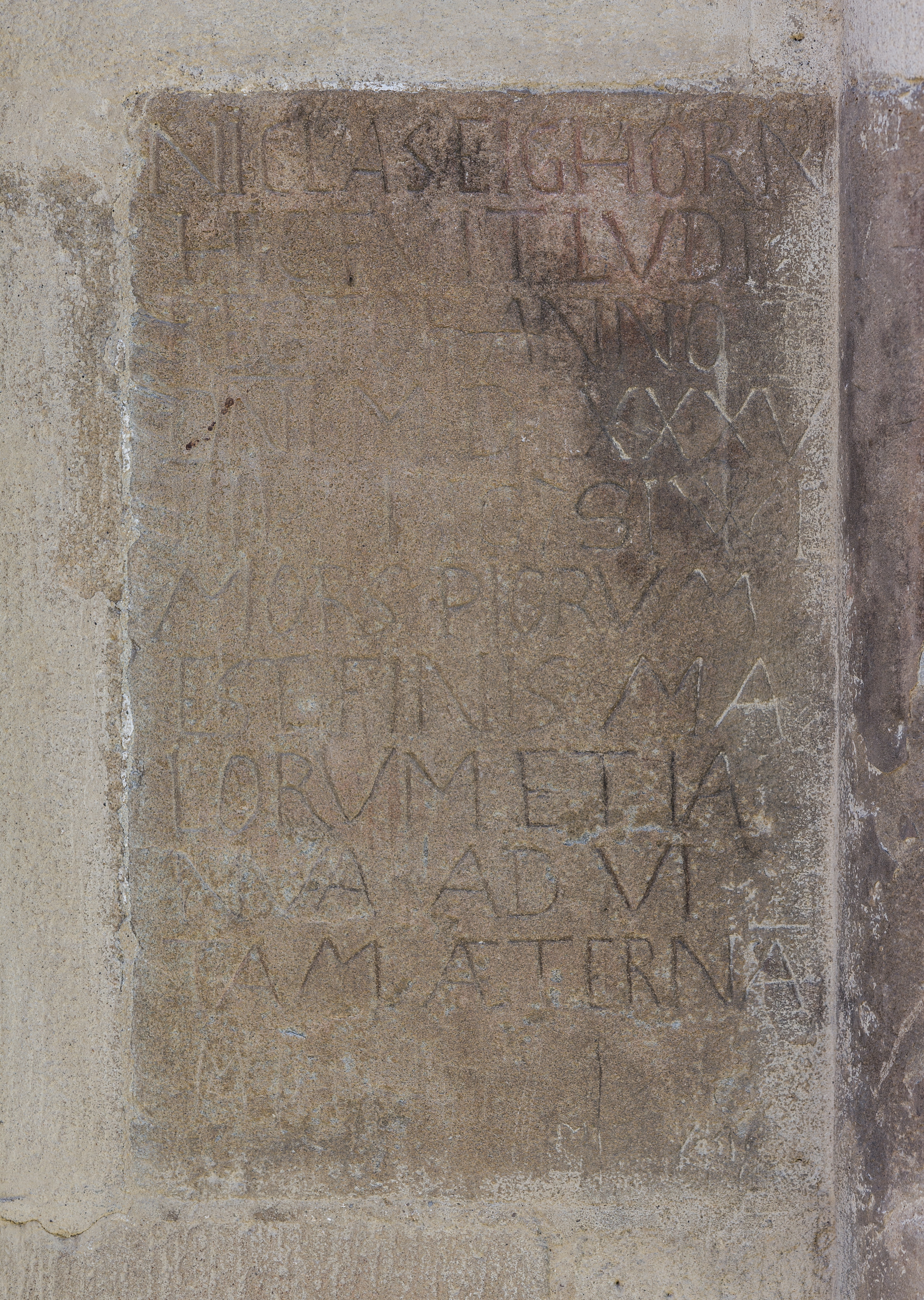 Externals of the parish church Schöngrabern, Weinviertel, Lower Austria